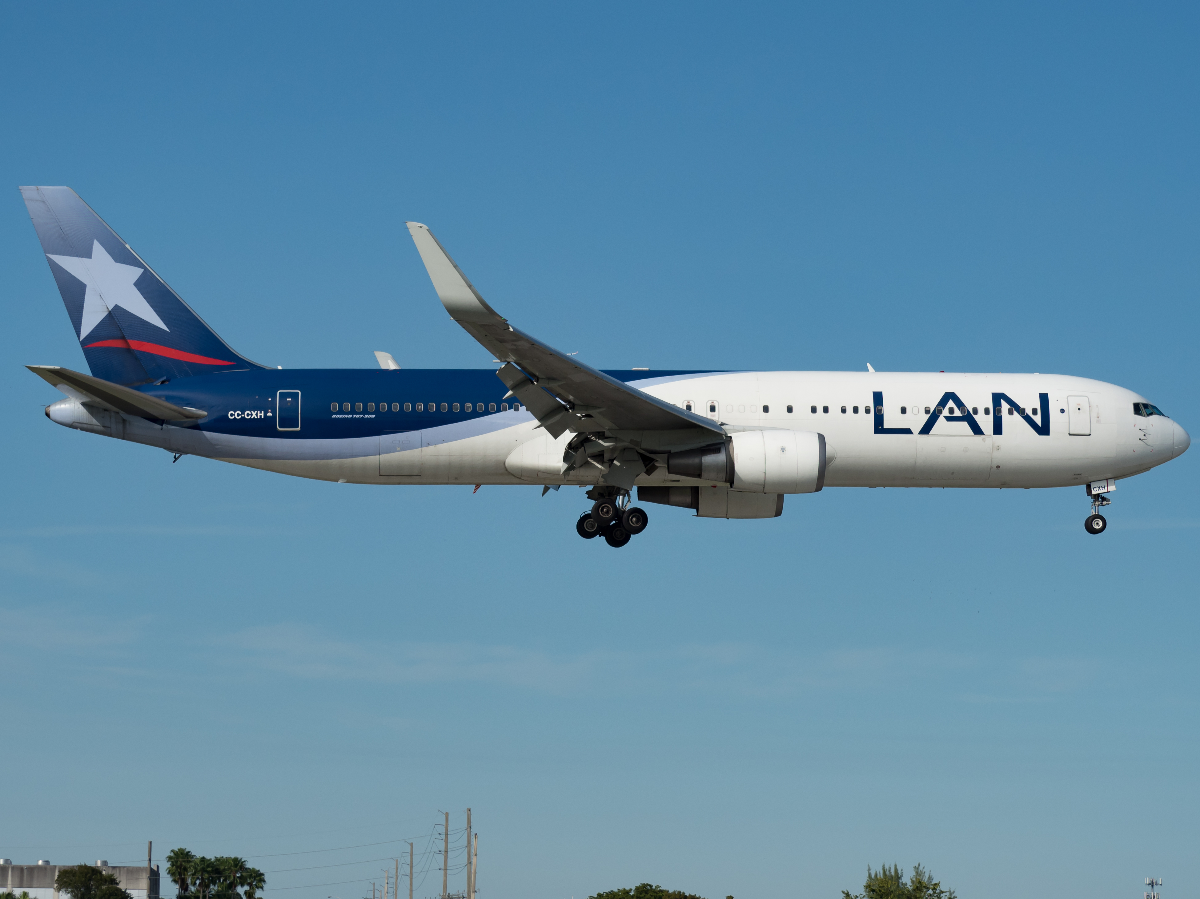 LAN Airlines Boeing 767 at Miami International Airport